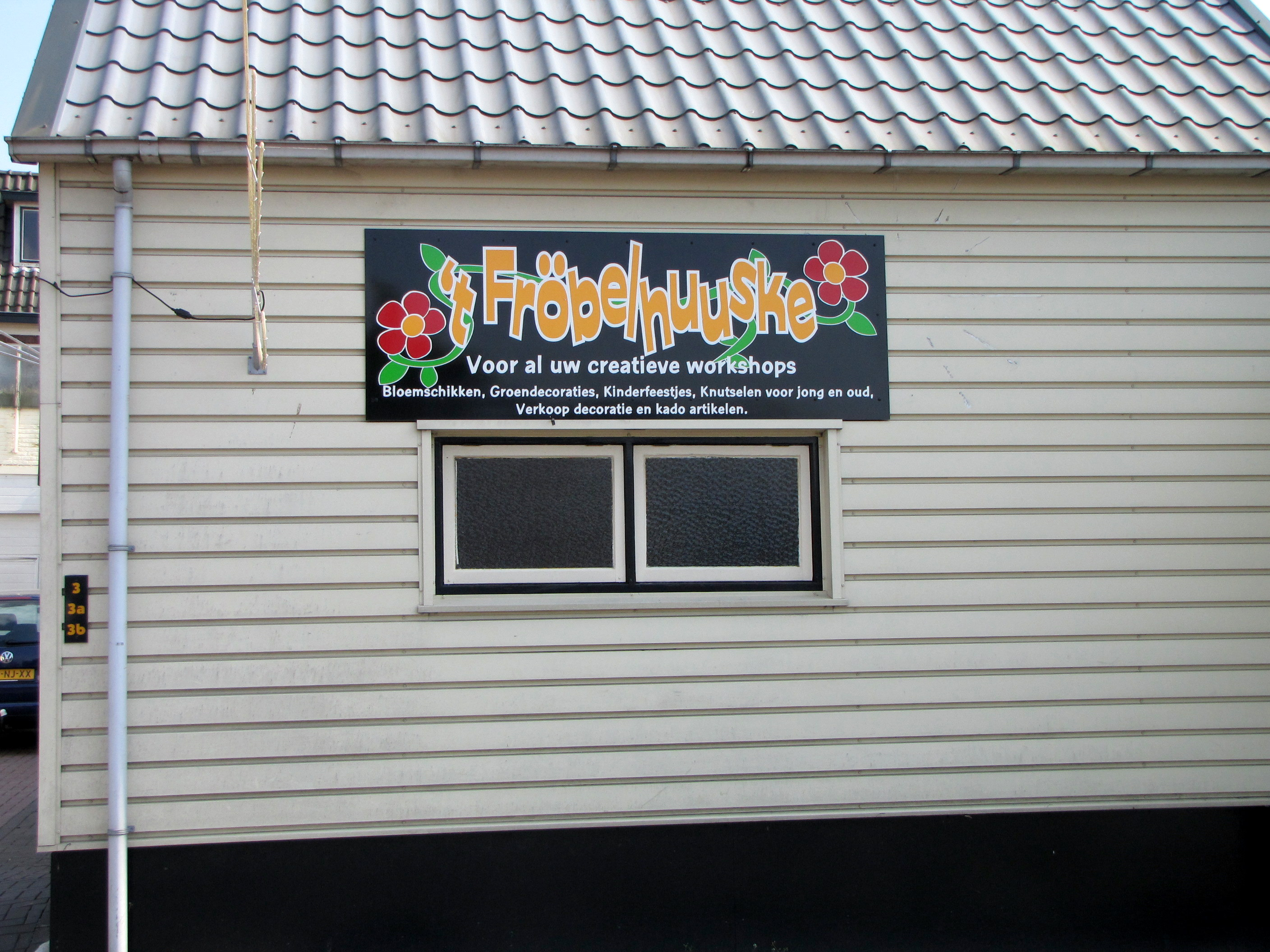 An arts and crafts shop in Terborg, the Netherlands. Fröbelen is a verb derived from the name of German pedagogue Friedrich Fröbel, the inventor of Kindergarten. Huuske is Low Saxon and means house in English.